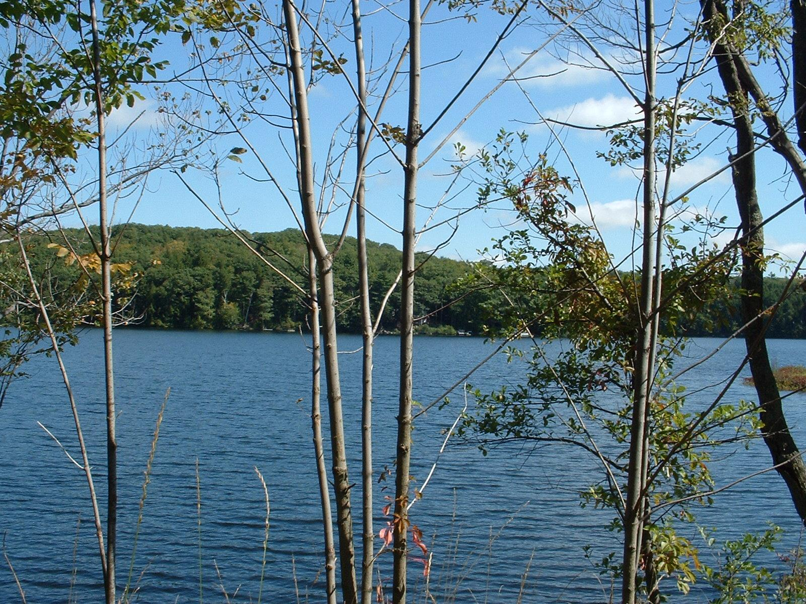 Benton Pond, Otis, Massachusetts Taken from Route 23, Otis, MA